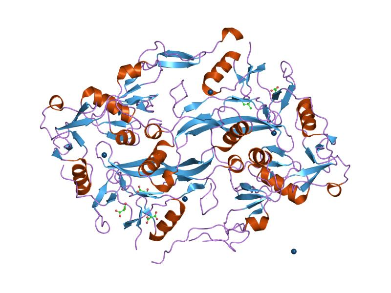 Cartoon representation of the molecular structure of protein registered with 2b0u code.